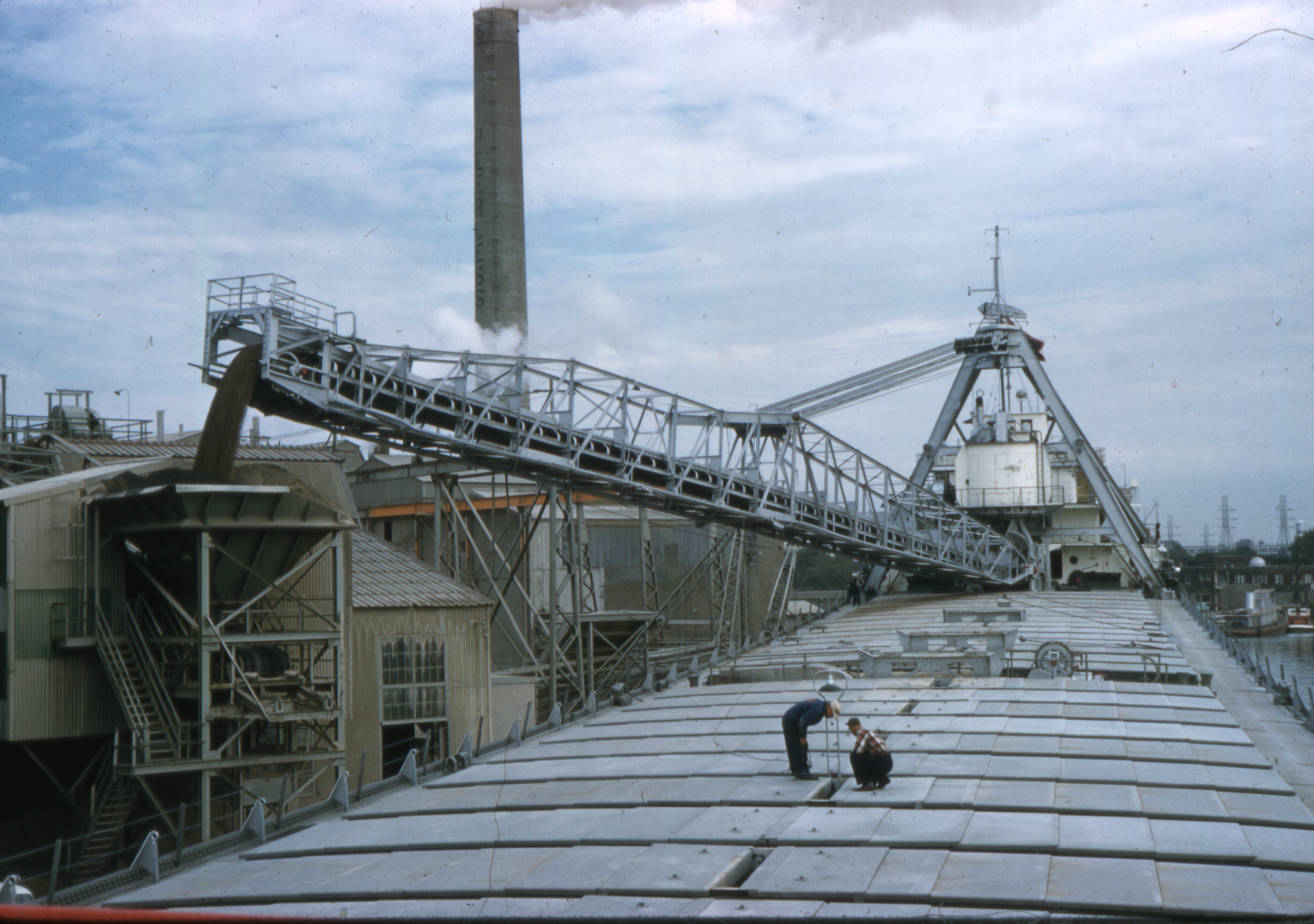 SS Bradley unloading in hopper at Michigan Limestone